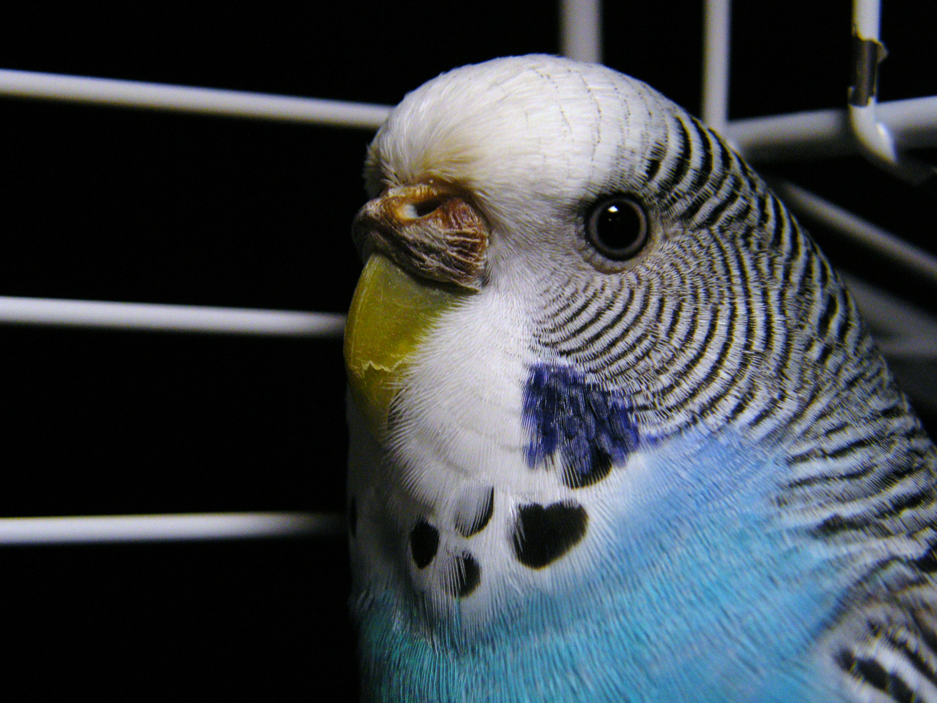 A 2 Year old Budgie.